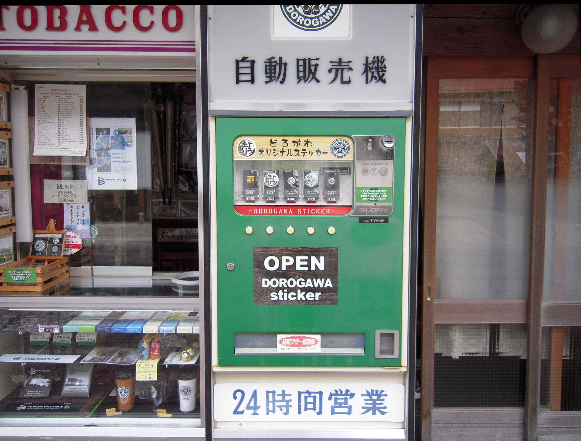 洞川温泉 - Hot spring village in Dorogawa 2010.11.14 - 02